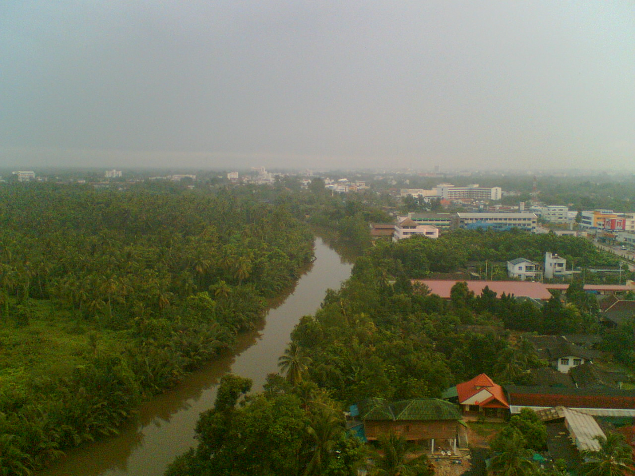 Tagupe Canal, Suratthani